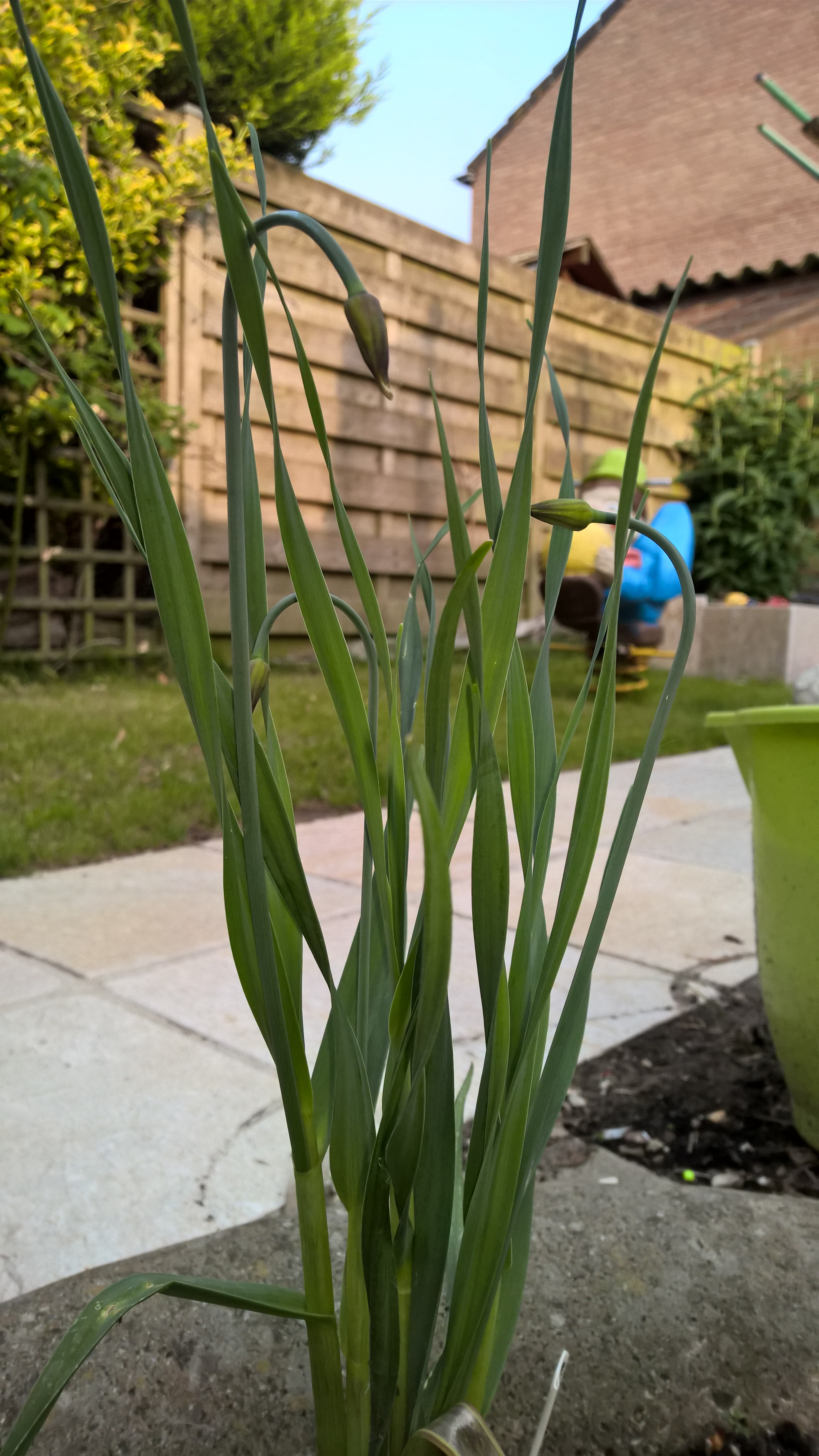 lop-sided onion